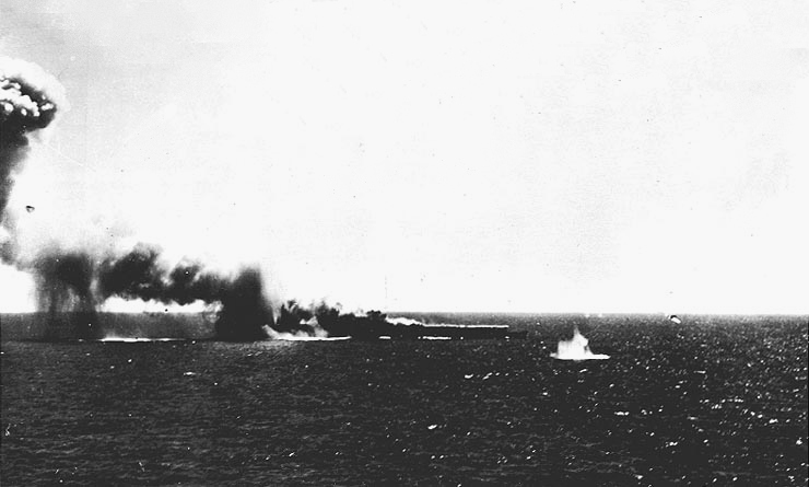 The Japanese aircraft carrier Shoho under attack by U.S. Navy carrier aircraft in the late morning of 7 May 1942. A U.S. Navy Douglas TBD-1 Devastator torpedo plane is visible at right, beyond the large splash.